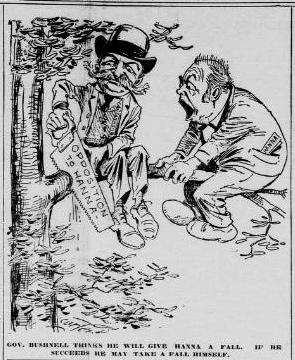 Editorial cartoon suggesting that Ohio Governor Asa Bushnell (left) is cutting himself off by opposing the re-election campaign of Senator Mark Hanna (right). For further info, see United States Senate election in Ohio, 1898